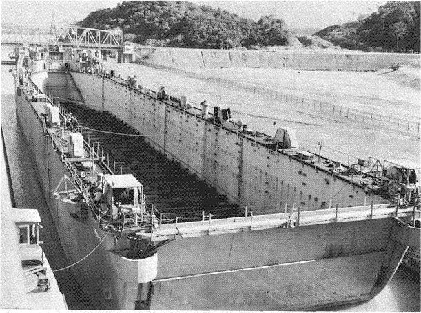 USS ARD-17 in the Panama Canal on her way to Ecuadorian Navy at Rodman Naval Station Canal Zone. US Navy photo from All Hands magazine April 1961 issue